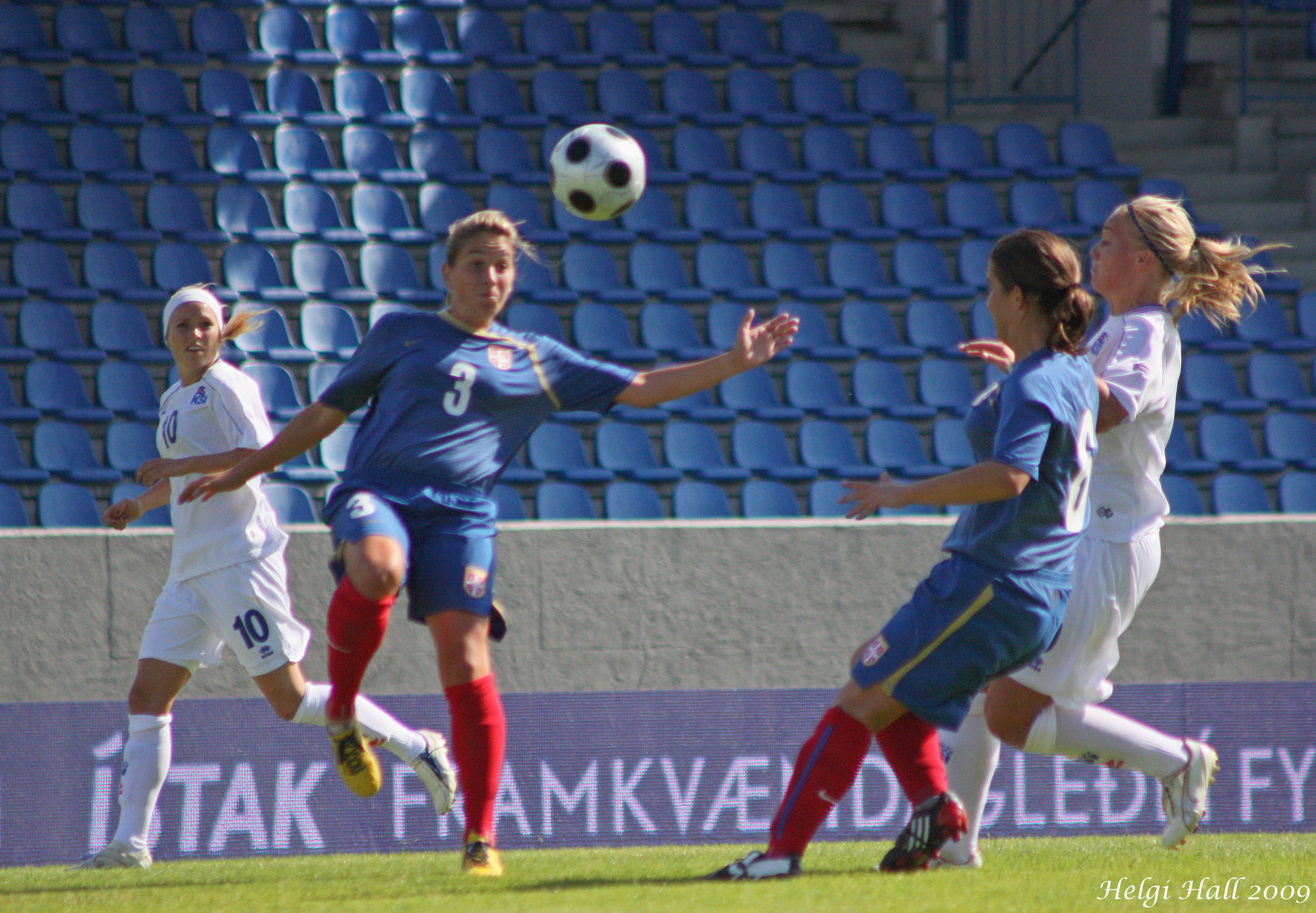 Iceland - Serbia/2011 FIFA Women's World Cup qualification UEFA Group 1